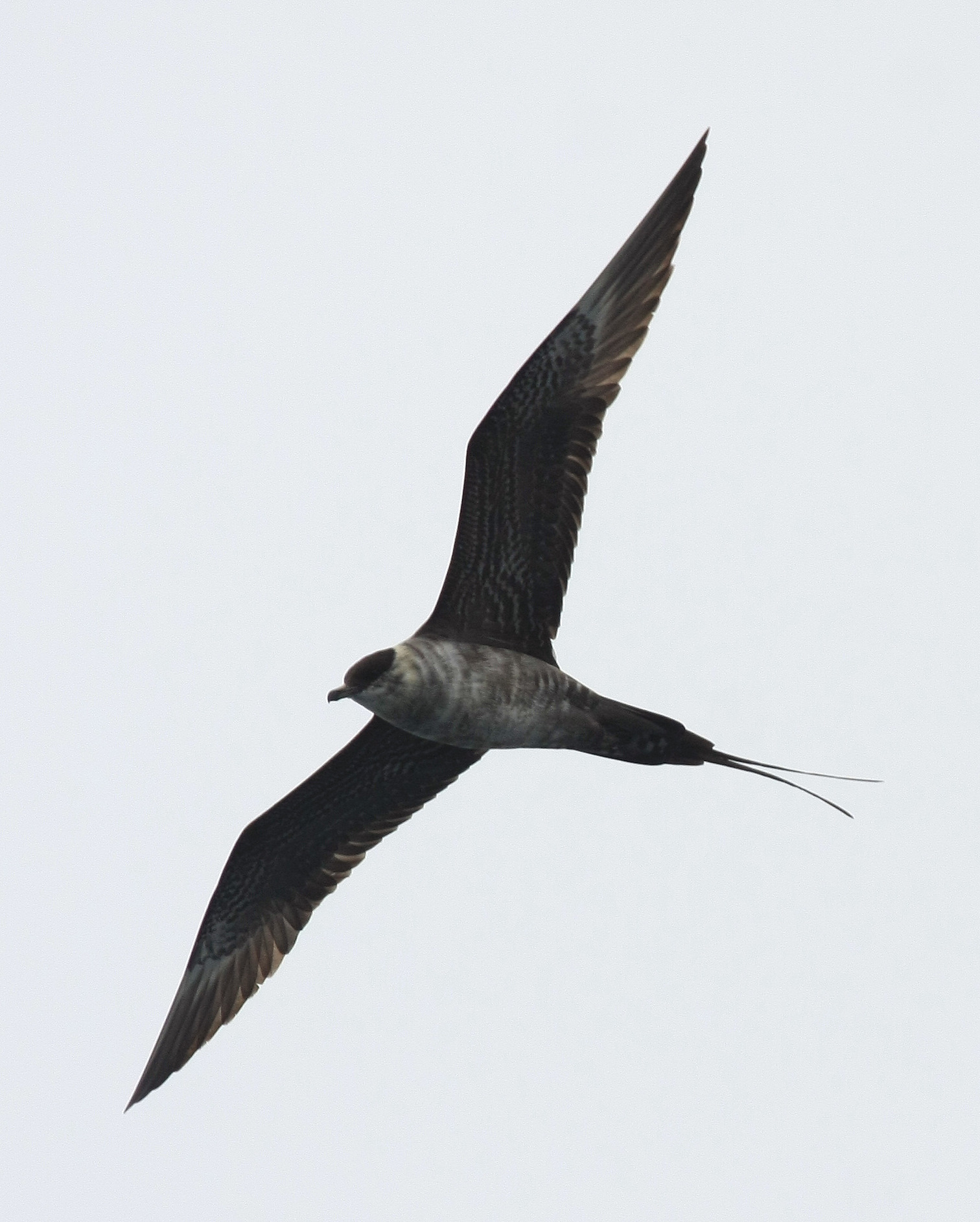 Long-tailed Jaeger (Stercorarius longicaudus) in flight